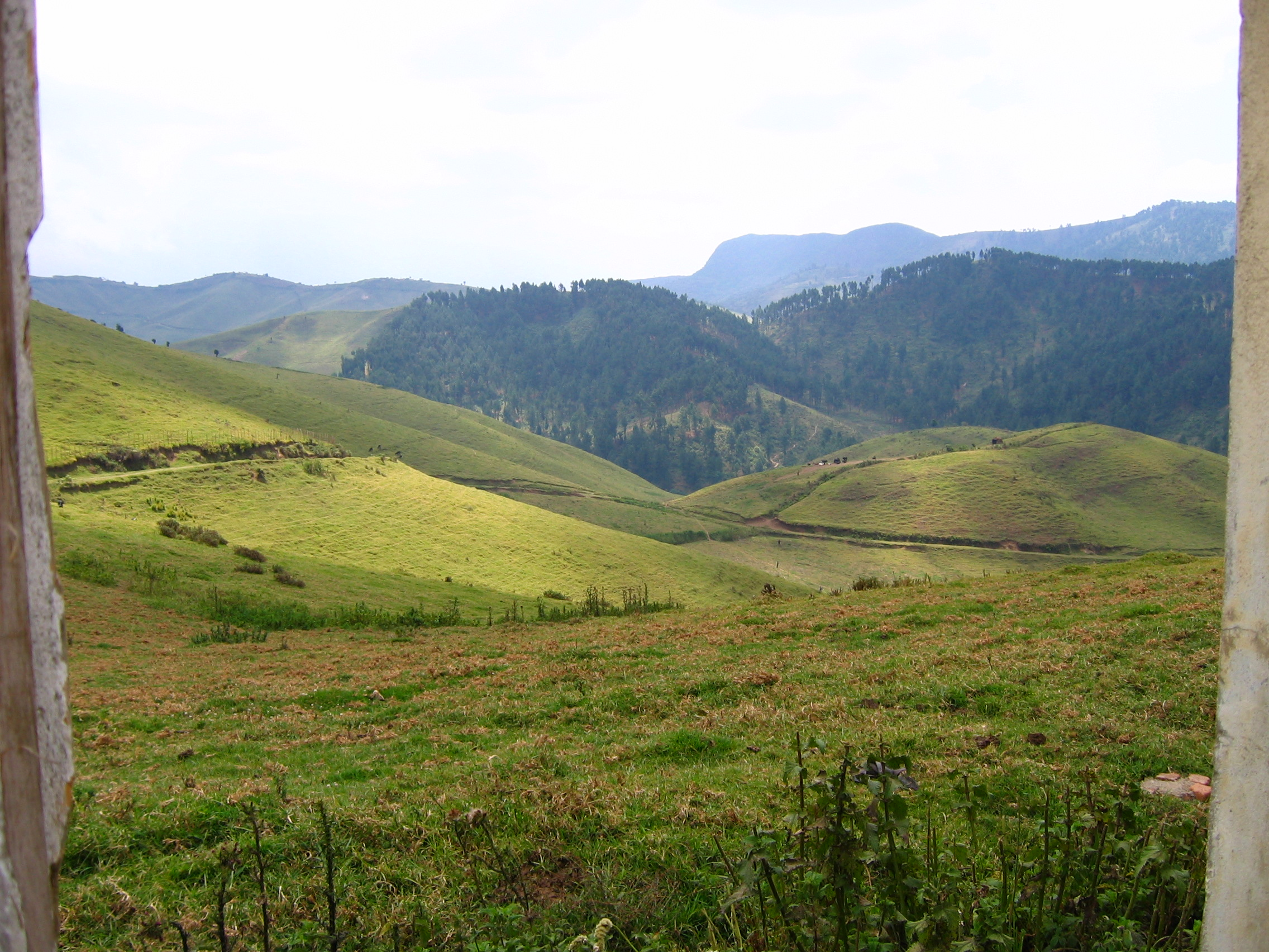 Rwandan landscape